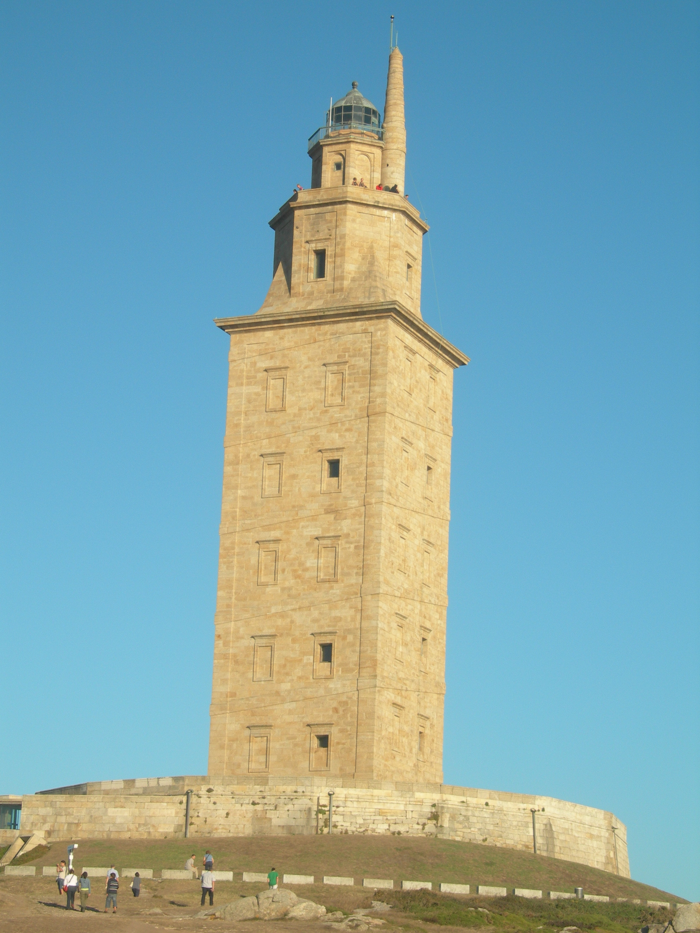 Photo of the Hercules tower located in A Corunha (Galiza)